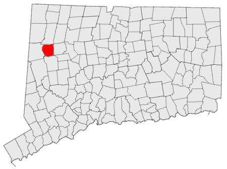 Locator map for Warren, Connecticut